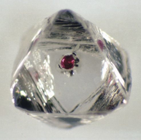 Inclusions in diamond such as this garnet provide a window in the the Earth's deep interior.